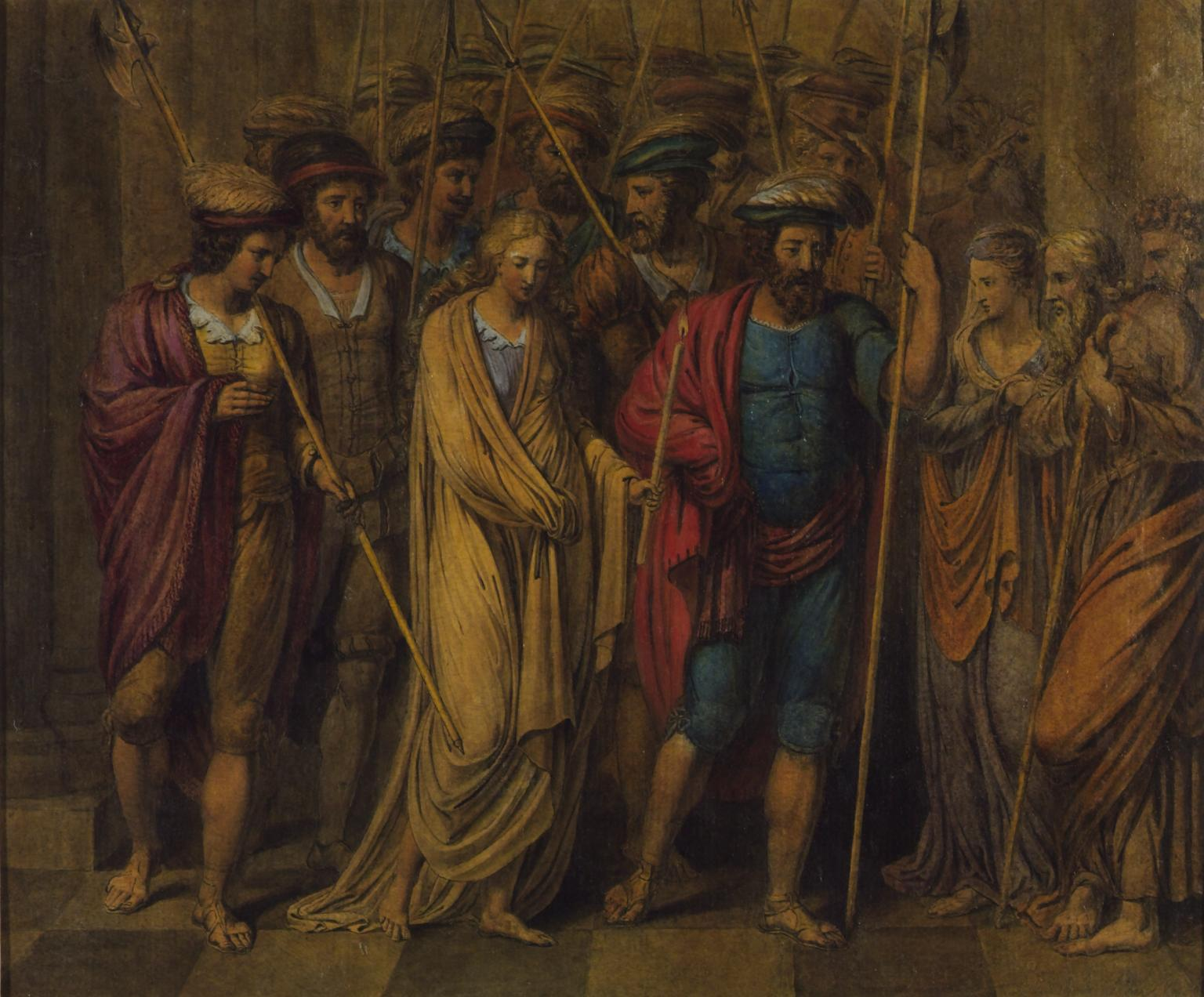 The Penance of Jane Shore in St Paul’s Church, c.1793 by William Blake, Ink, watercolour and gouache on paper, Tate, Reference: N05898